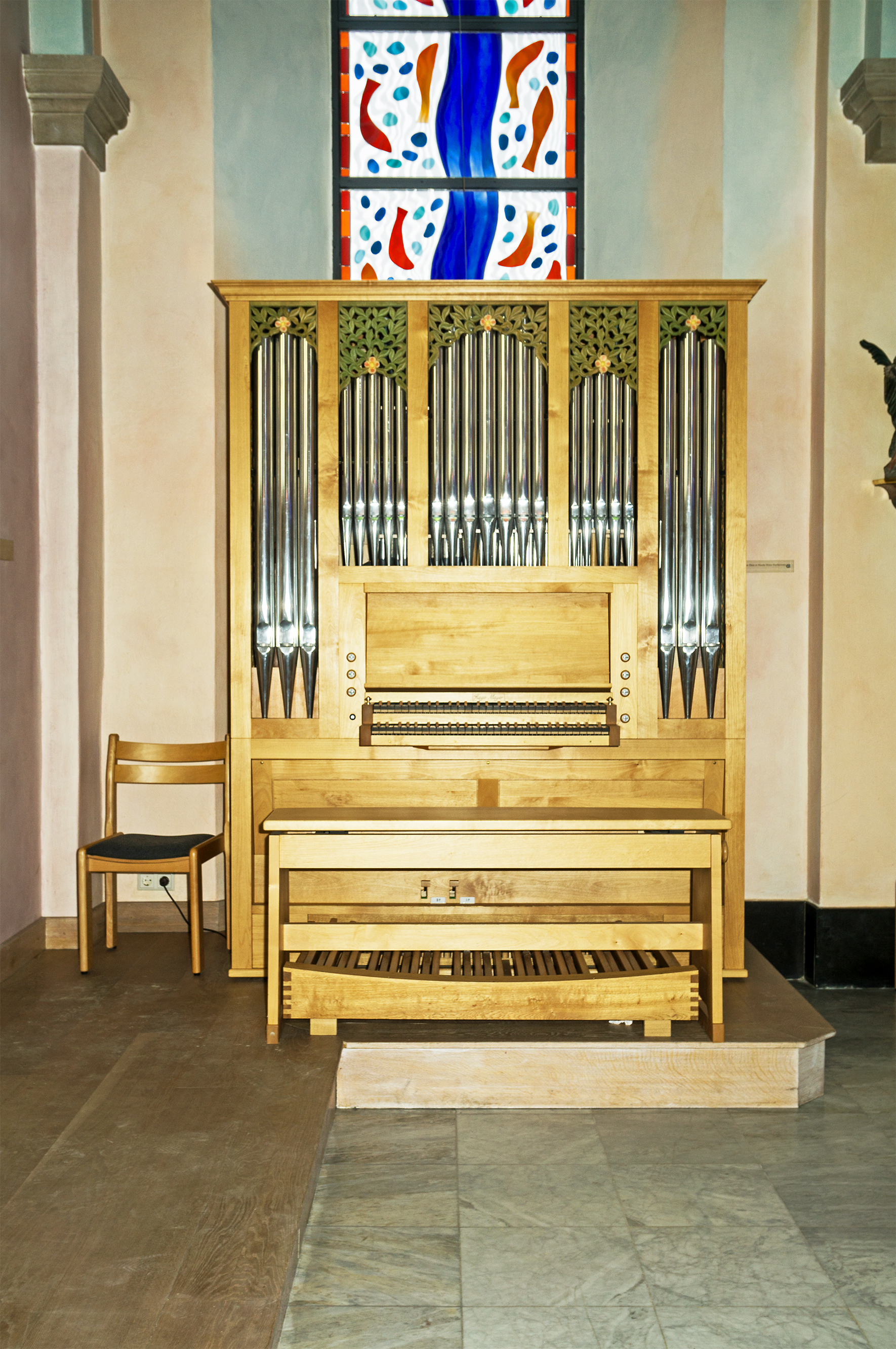 Organ of the church of Insenborn